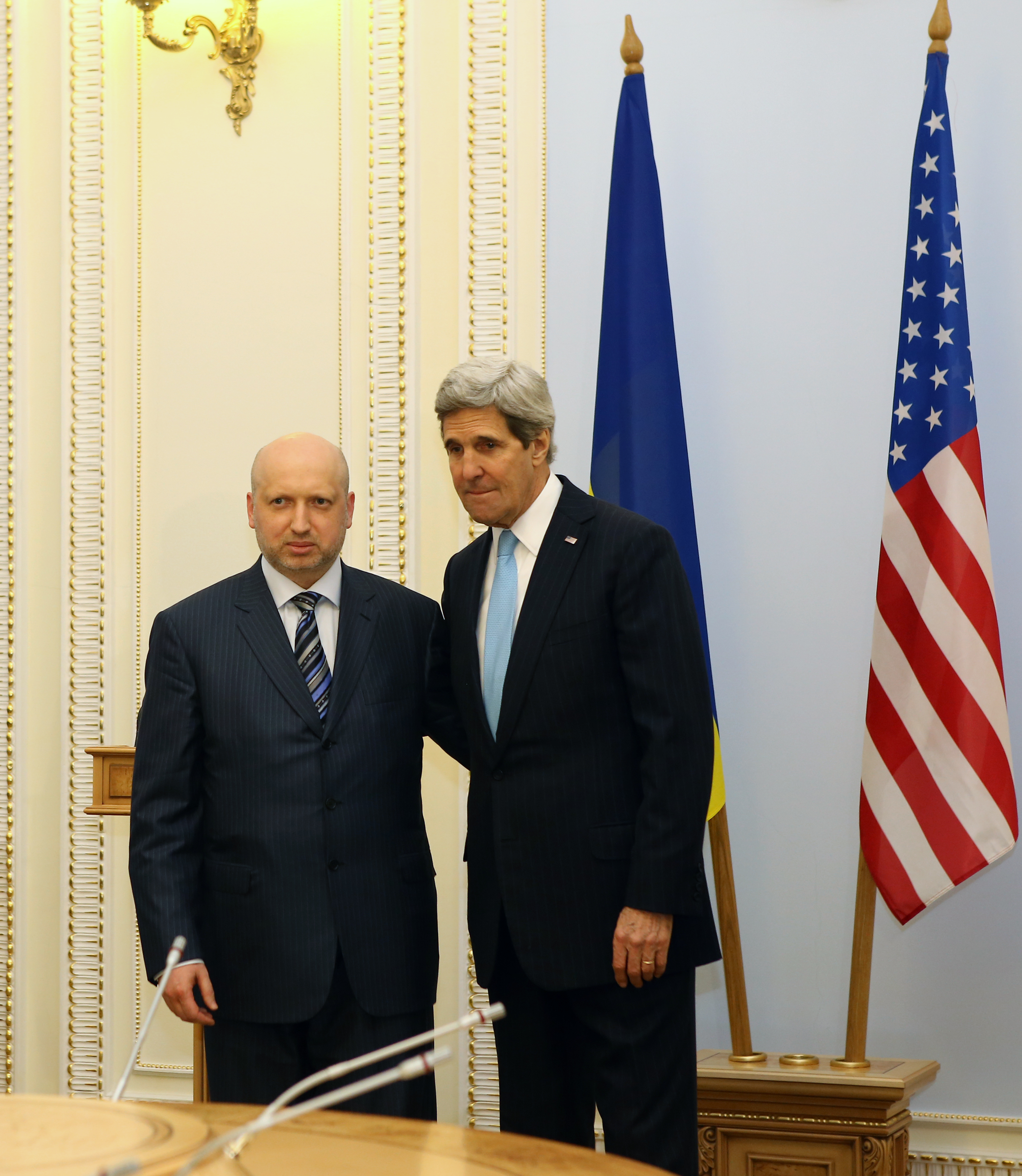 Secretary of State John Kerry at Verkhovna Rada with acting President Oleksandr Turchynov.